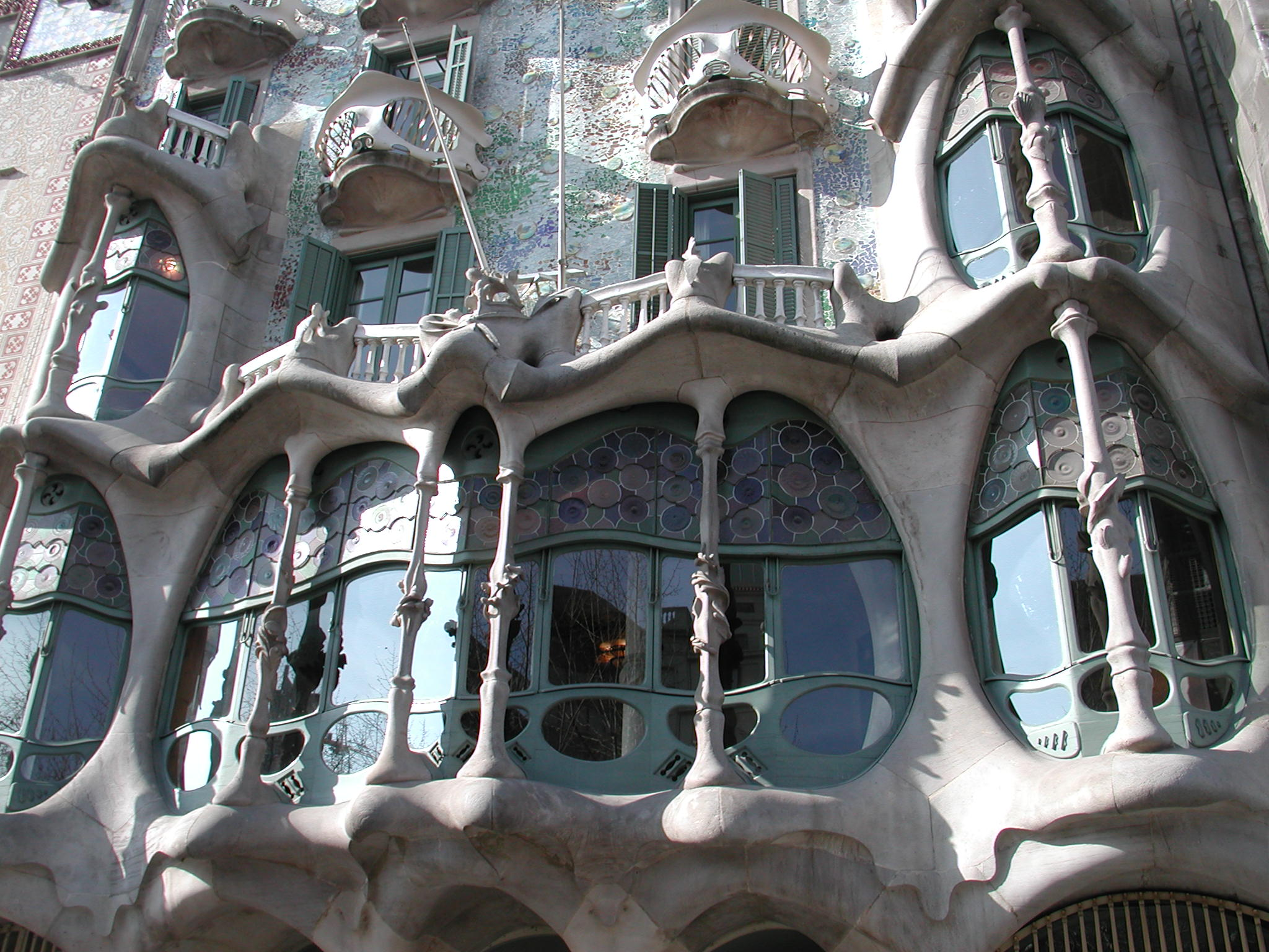 Antoni Gaudí i Cornet's work in Barcelona